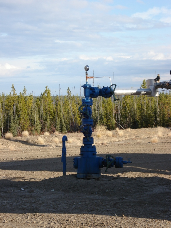 Wellhead in Northern BC, Canada